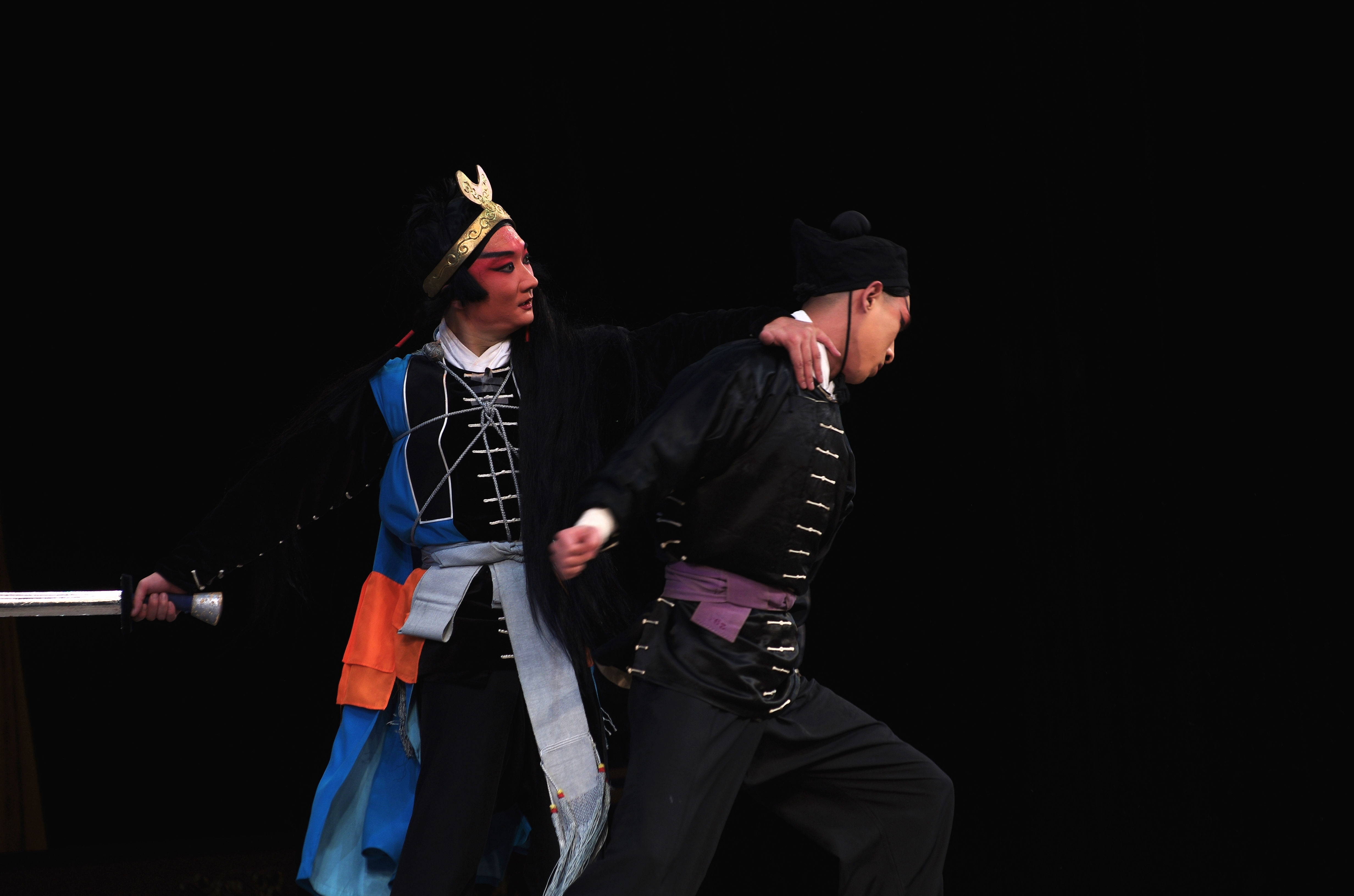 A Peking opera performance in Tianchan Theatre by Shanghai Jingju Theatre Company, starring Guo Shiming (郭士铭) as Wu Song.